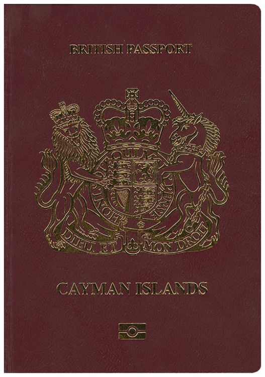 British passport (Cayman Islands)